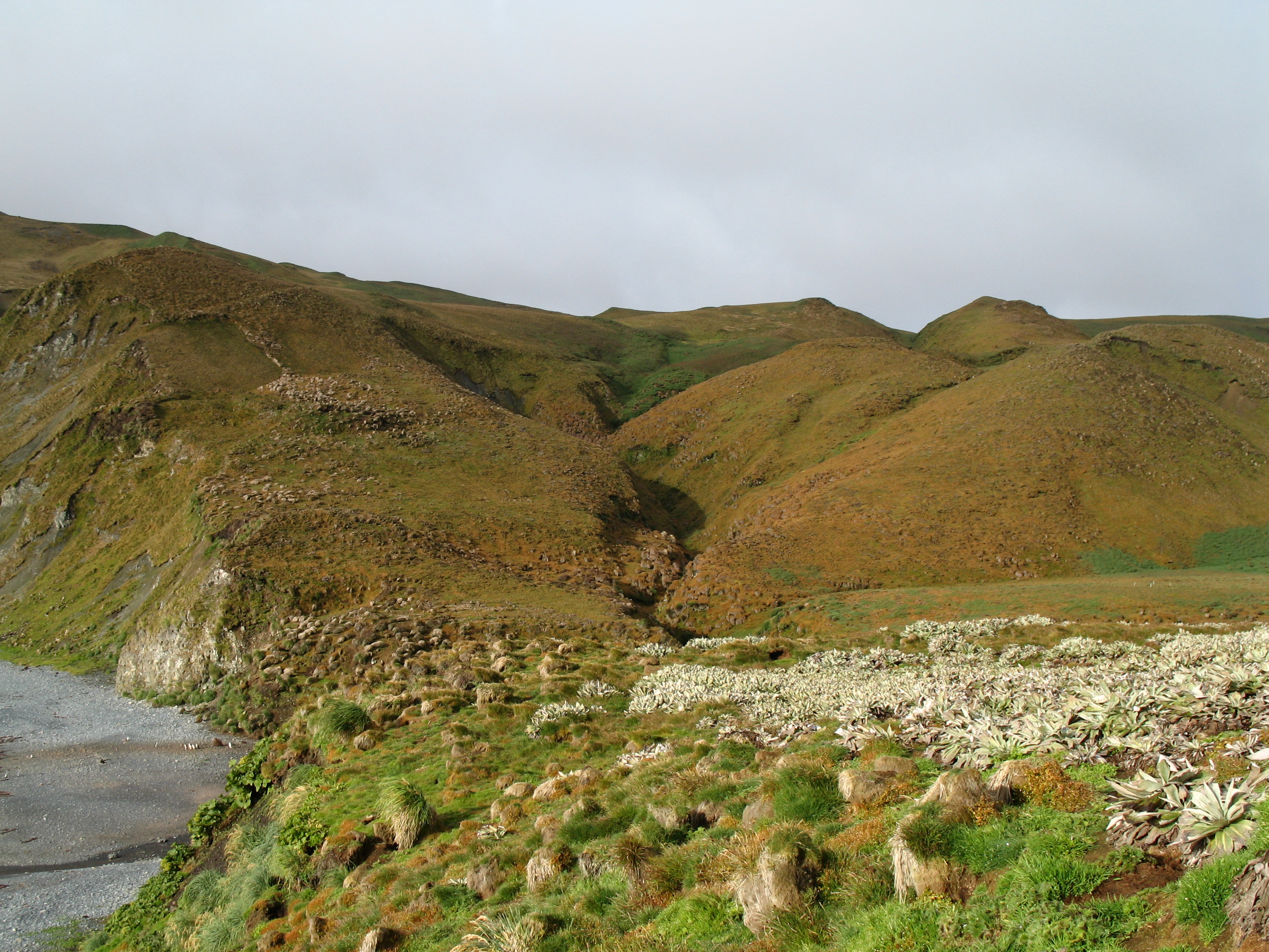 View over Macquarie Island bluffs